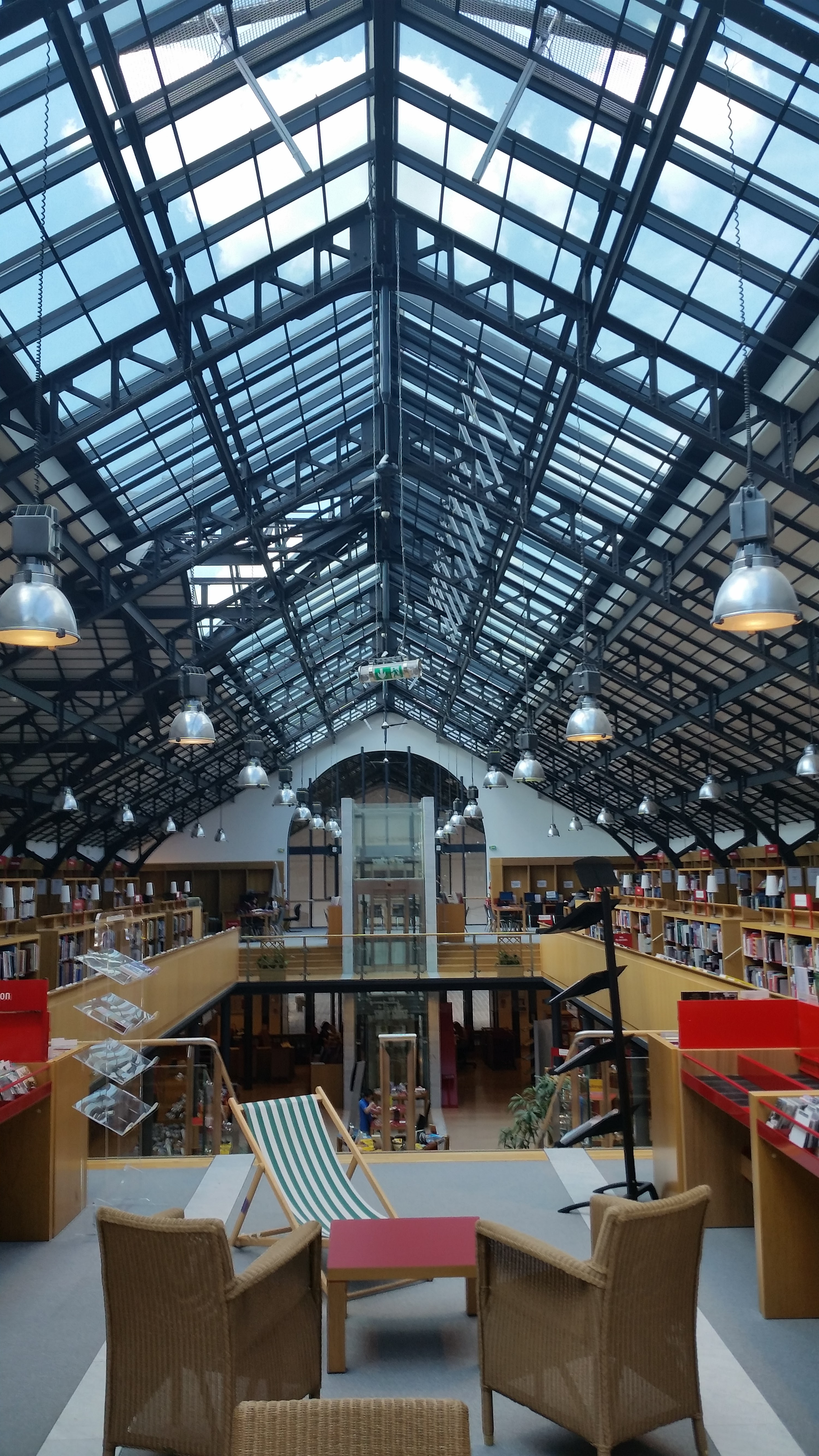 Inside the Buisson's farm's library